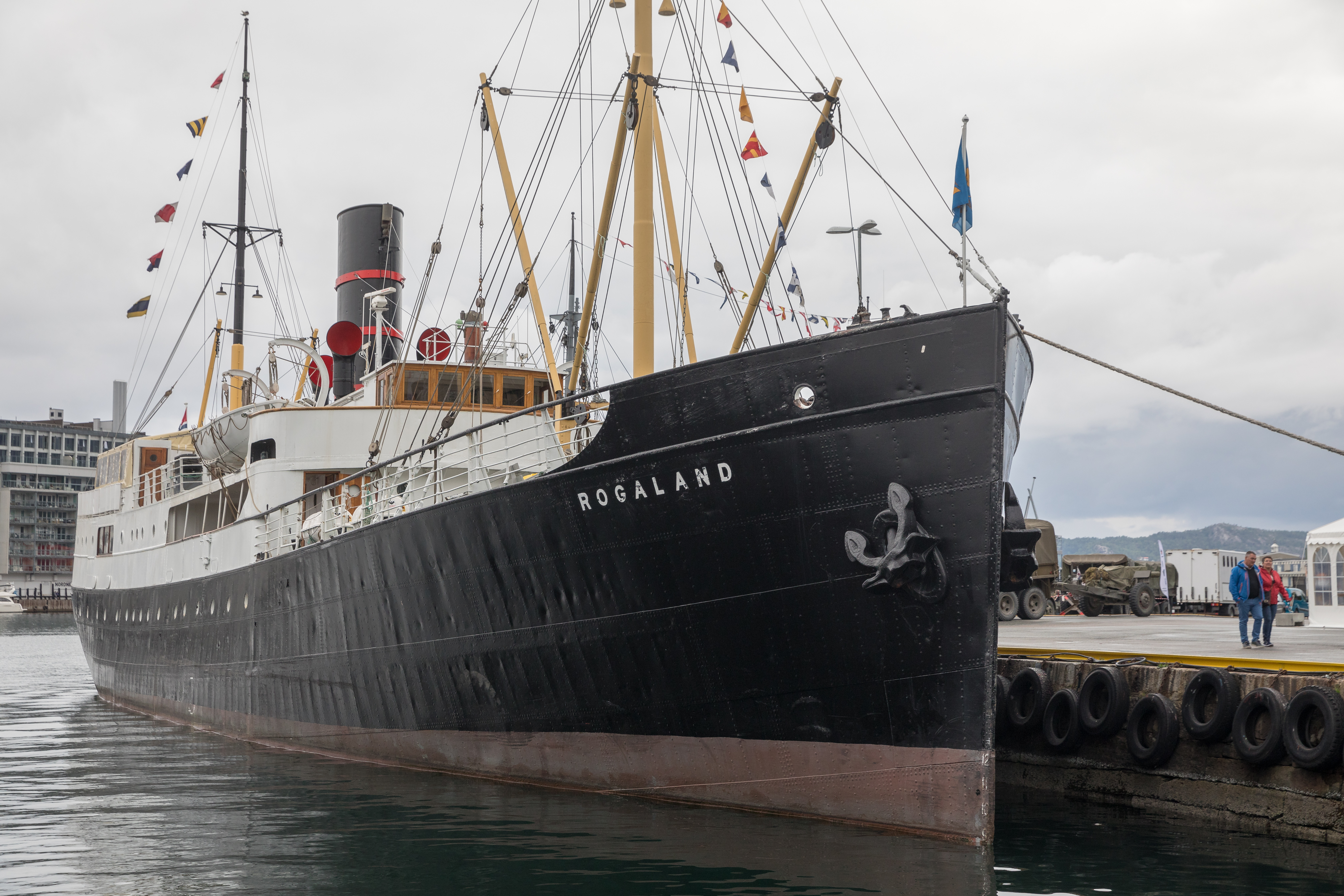 From Fjordsteam 2018. The maritime heritage festival took place between August 2 and August 5 2018 in Bergen, Norway.